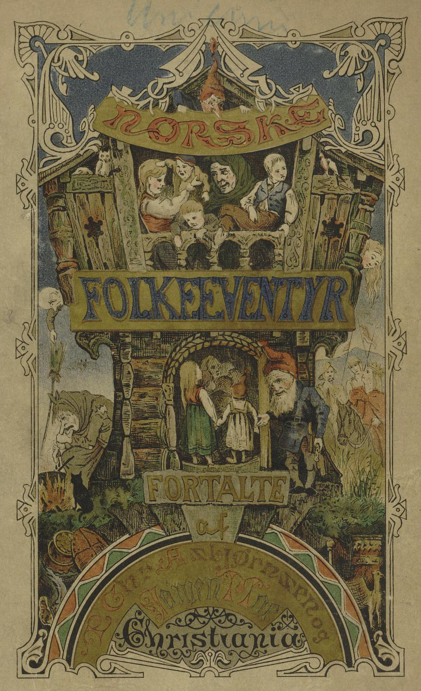 Asbjornsen and Moe's Norske folkeeventyr 5th edition, 1874. Cover illustration.